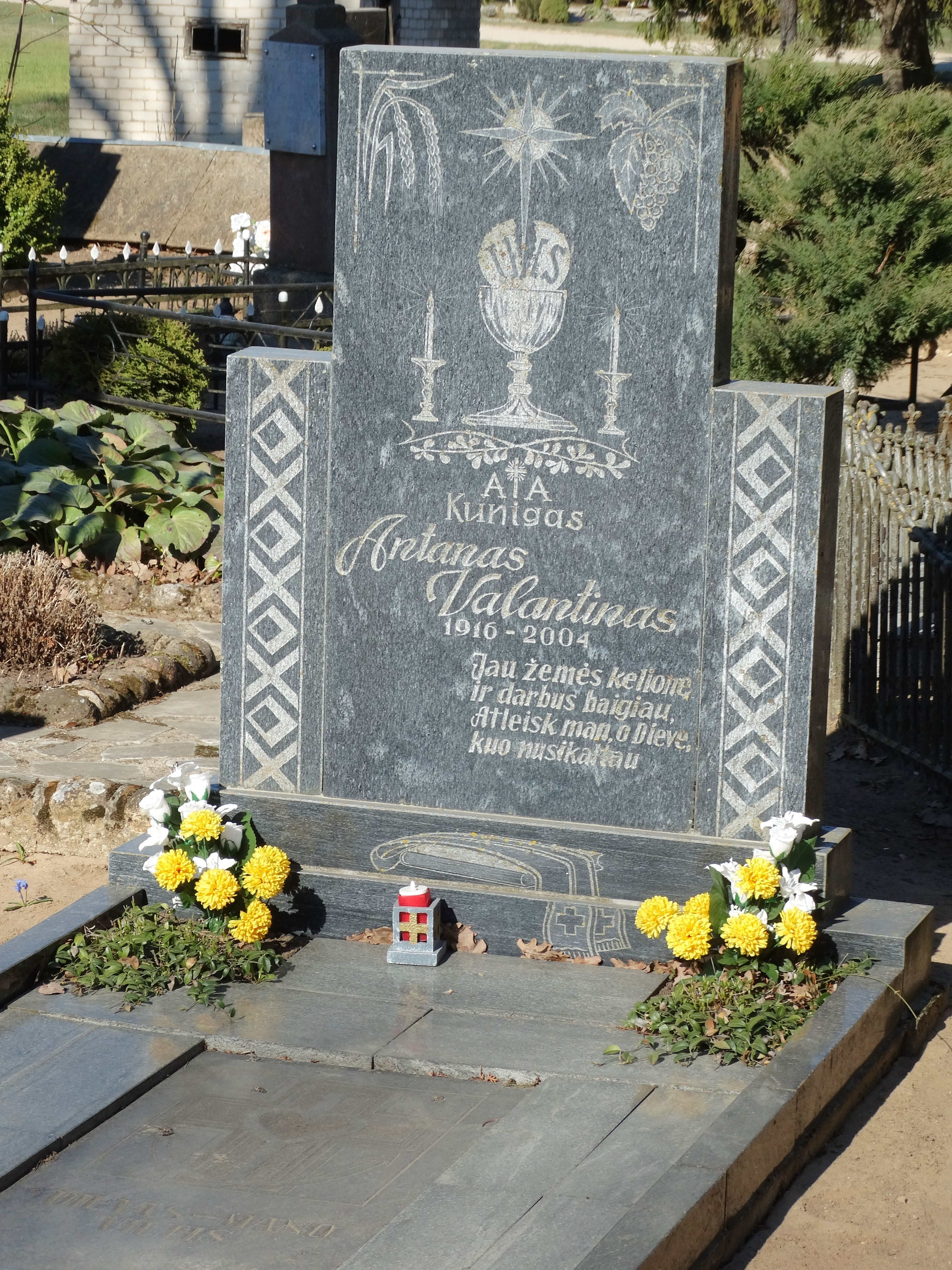 Tomb of Valantinas in Vadaktai, Radviliškis district, Lithuania